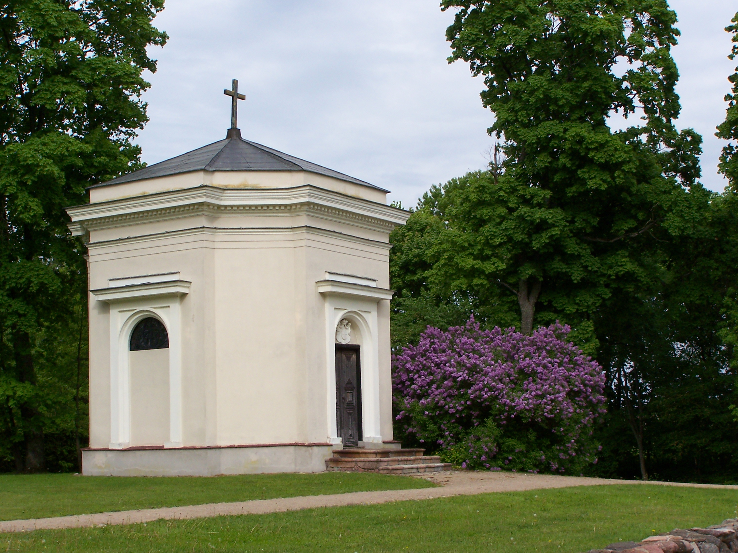 Chapel in Kernavė (Lithuania).